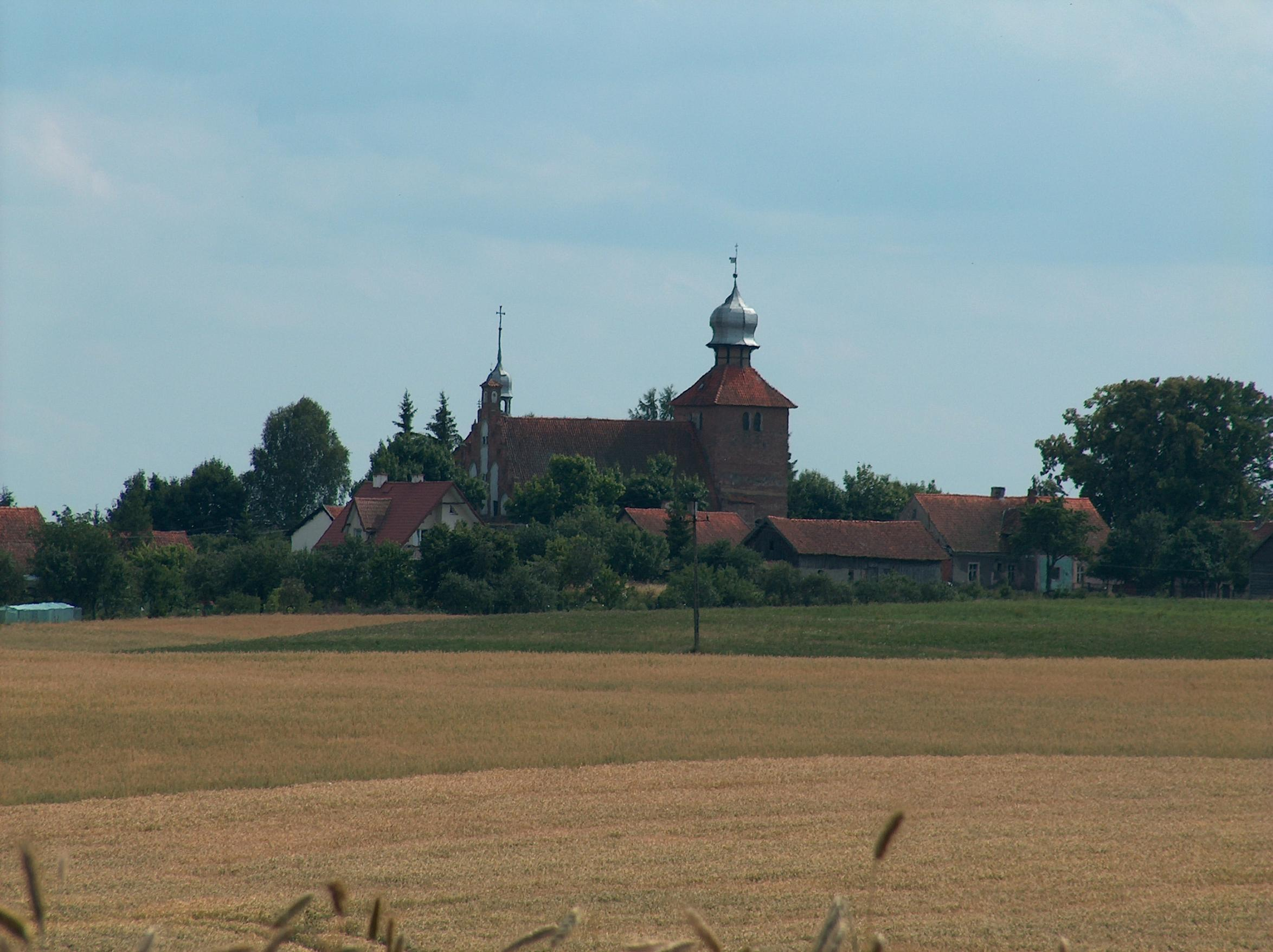 A church in Sząbruk near Gietrzwałd, Poland.